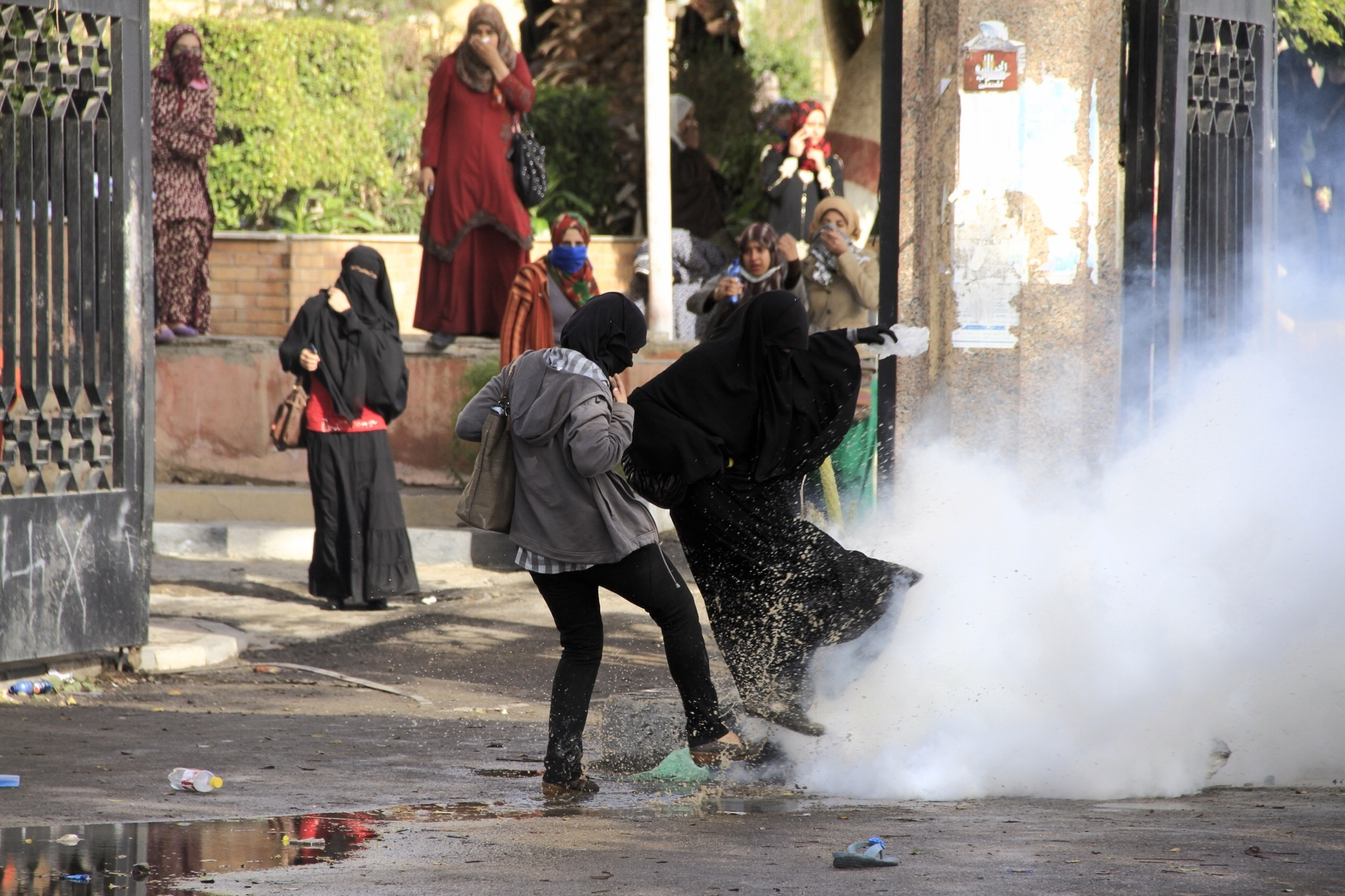 Original description: "Women react to tear gas during a protest at Al-Azhar University in Cairo, Dec. 11, 2013. (Hamada Elrasam for VOA)"